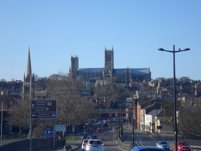 Photo by Ben from . They are allowed under a reuse commons license.